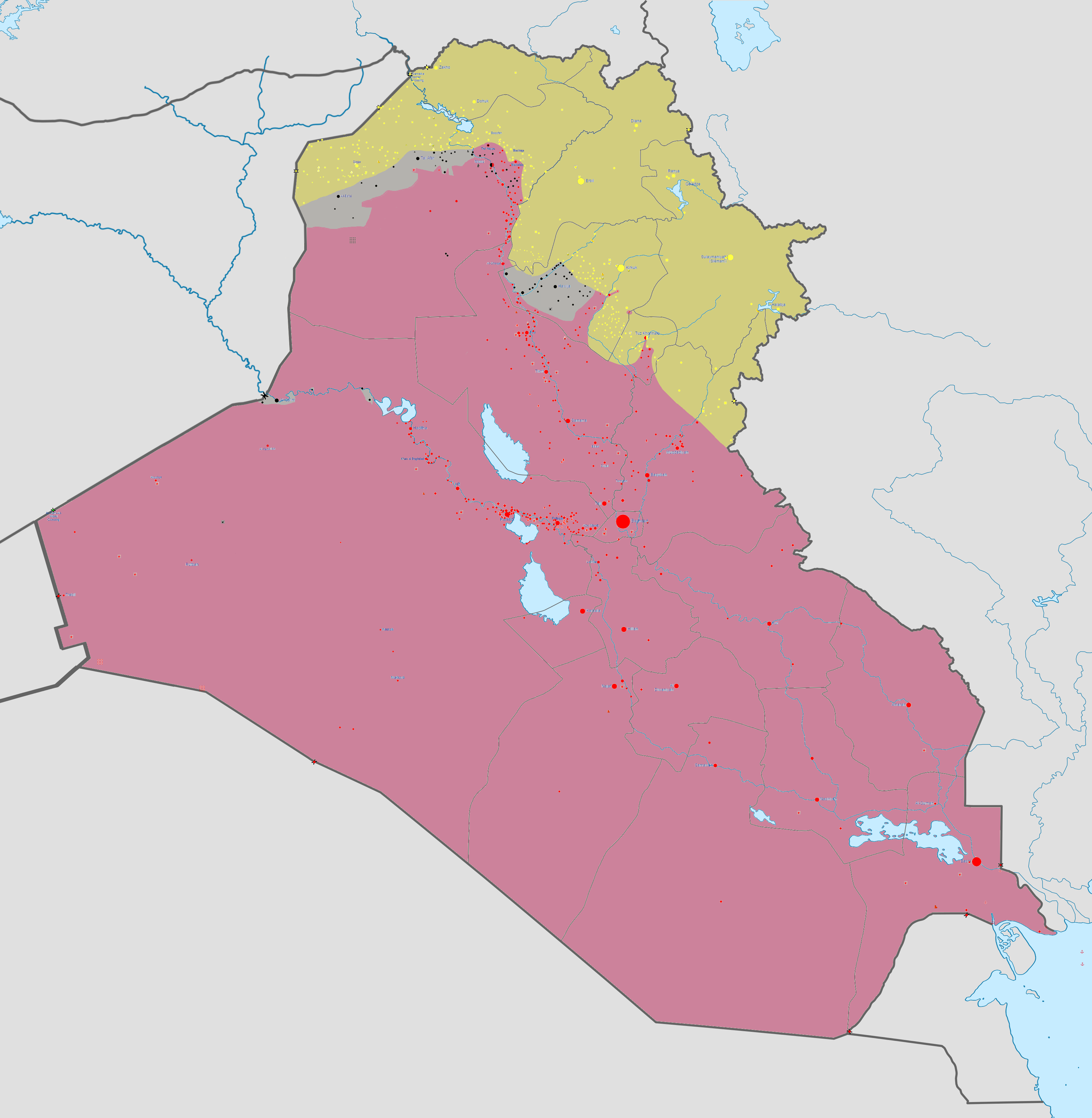 Map of the Iraqi Civil War. Red means the Iraqi Government Yellow means the Kurdish Government (An ally of the Iraqi government) Gray means ISIS (Enemy of both)